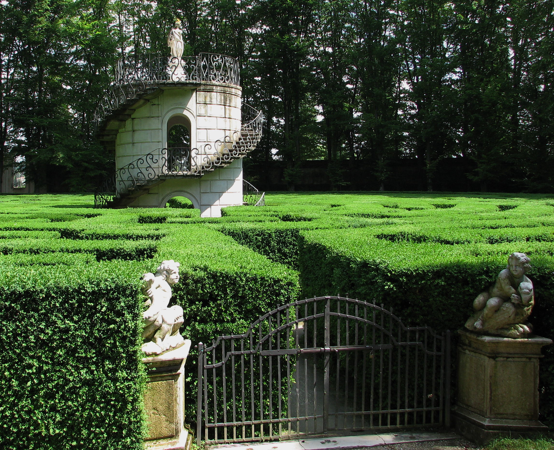 Villa Pisani, Labyrinth